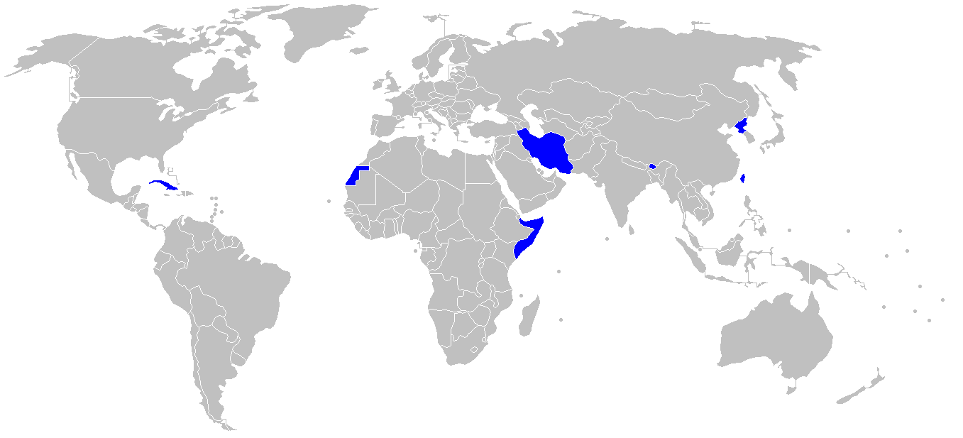 Map of the world indicating the states and territories with no official diplomatic relations with the United States as of 2007.